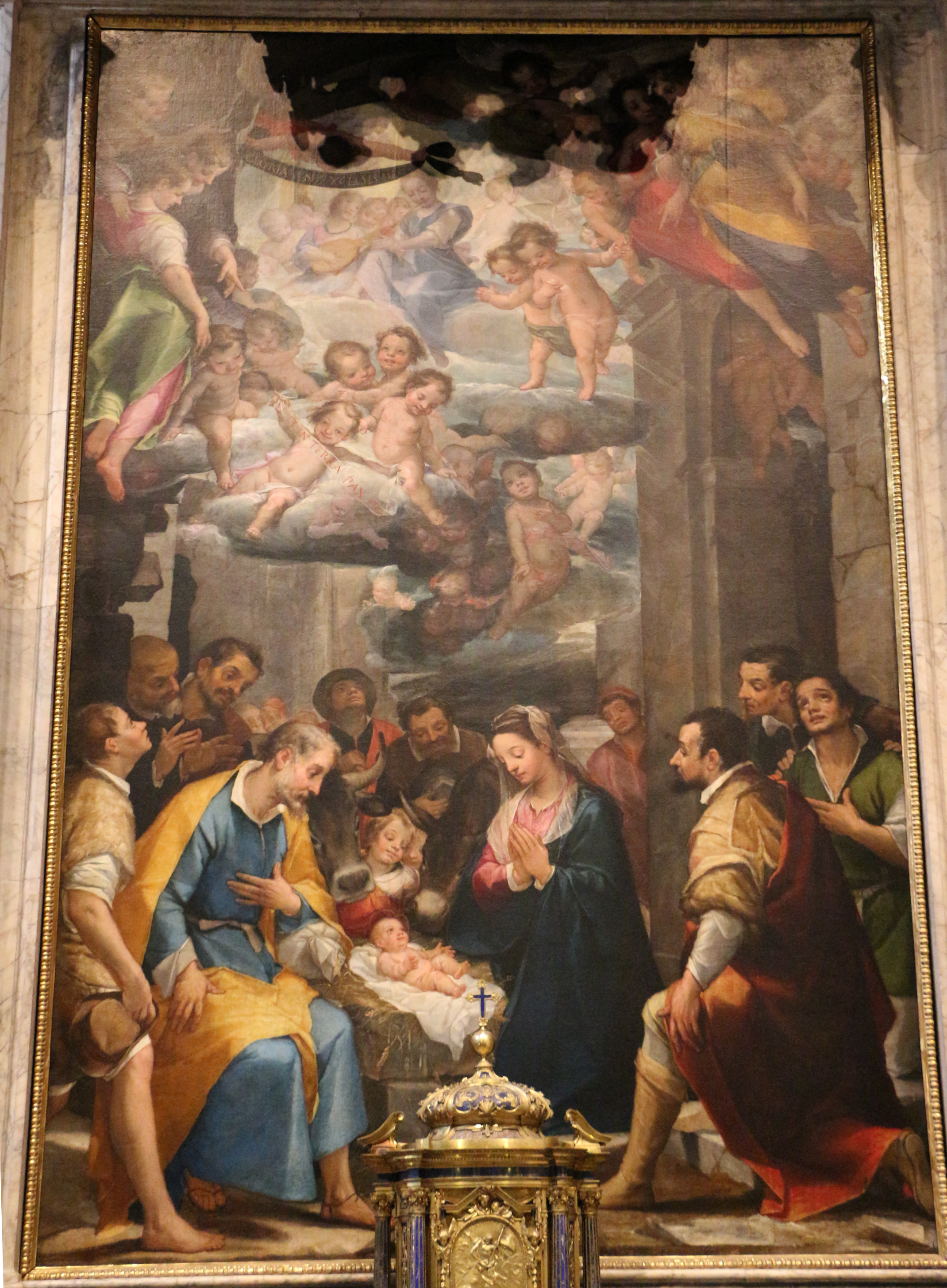 Cathedral (Siena) - Interior